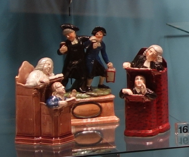 Exhibit in the Winterthur Museum, New Castle County, Delaware, USA. This work is in the public domain because the artist died more than 70 years ago.